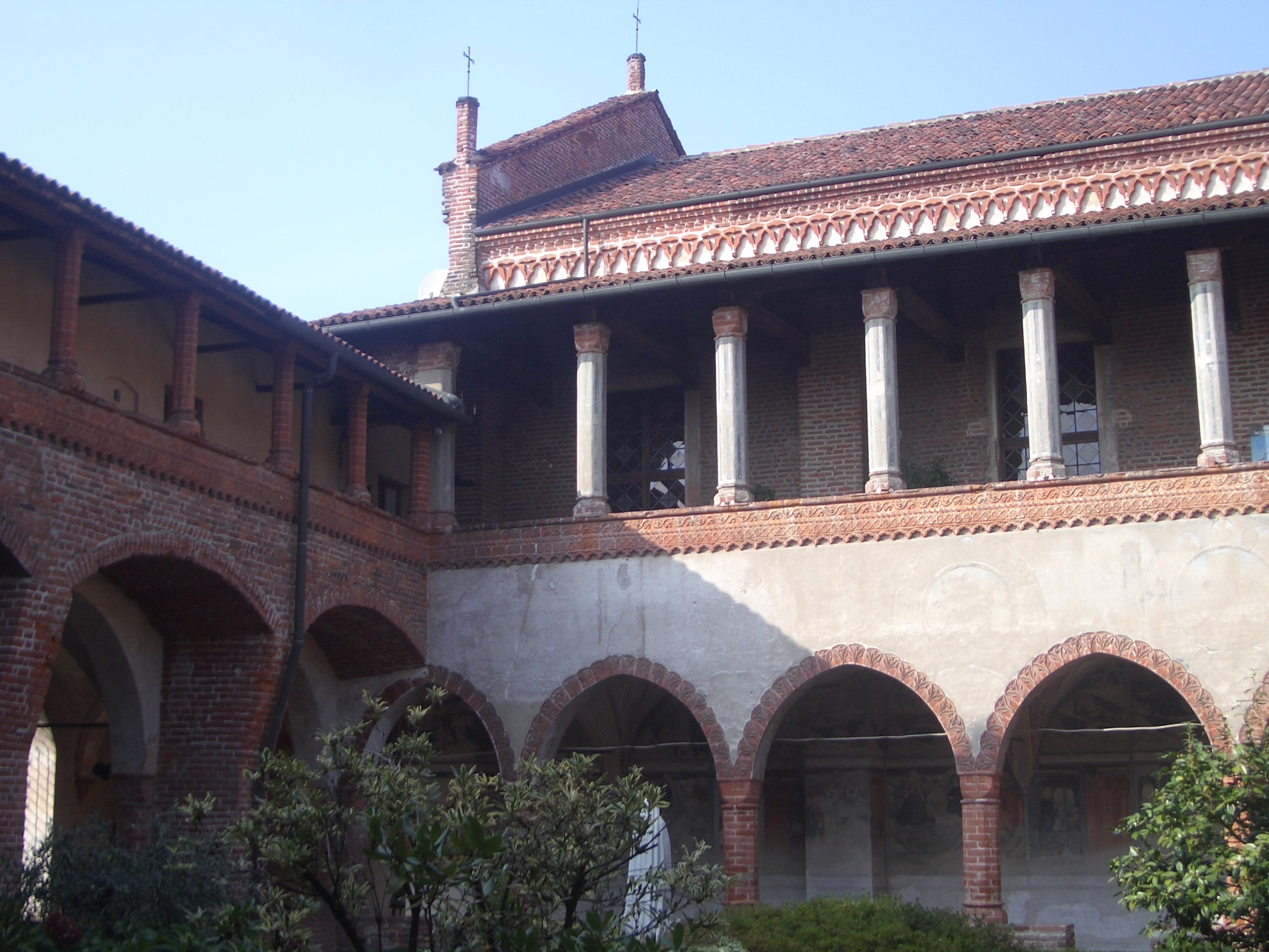 The cloister of St. Nazzaro and Celso Abbey, San Nazzaro Sesia, Novara, Italy.